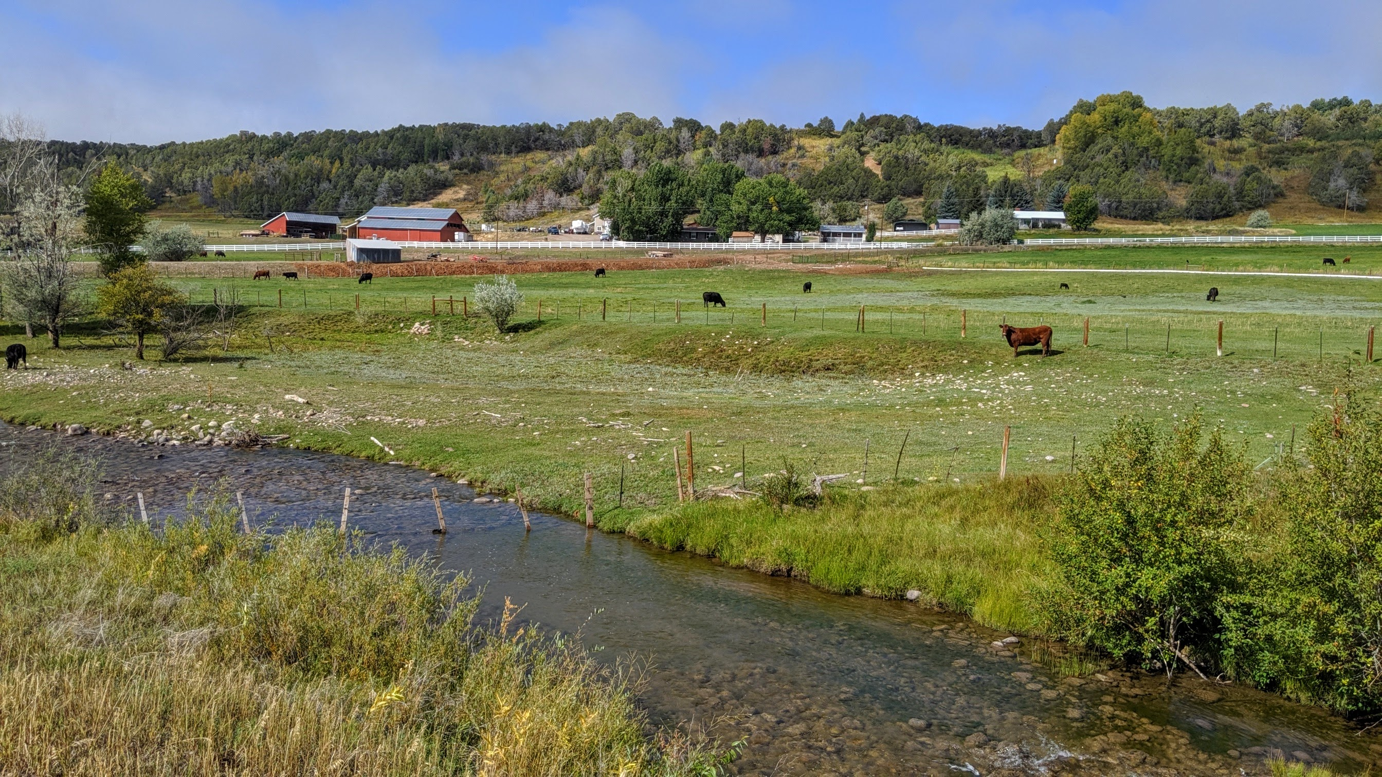 Florida River near Durango airport, at Colorado highway 172, with cows and farmhouse